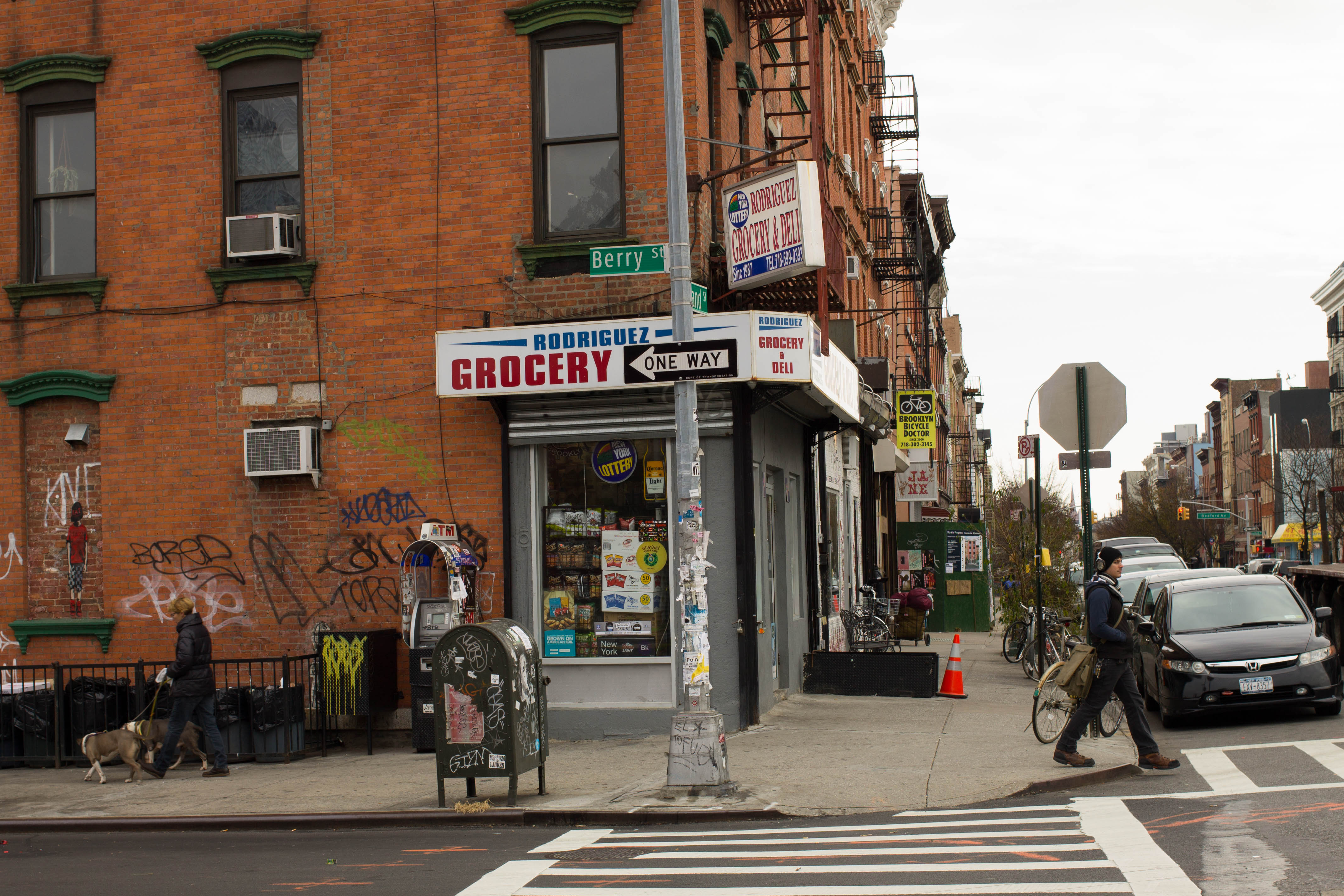 Williamsburg